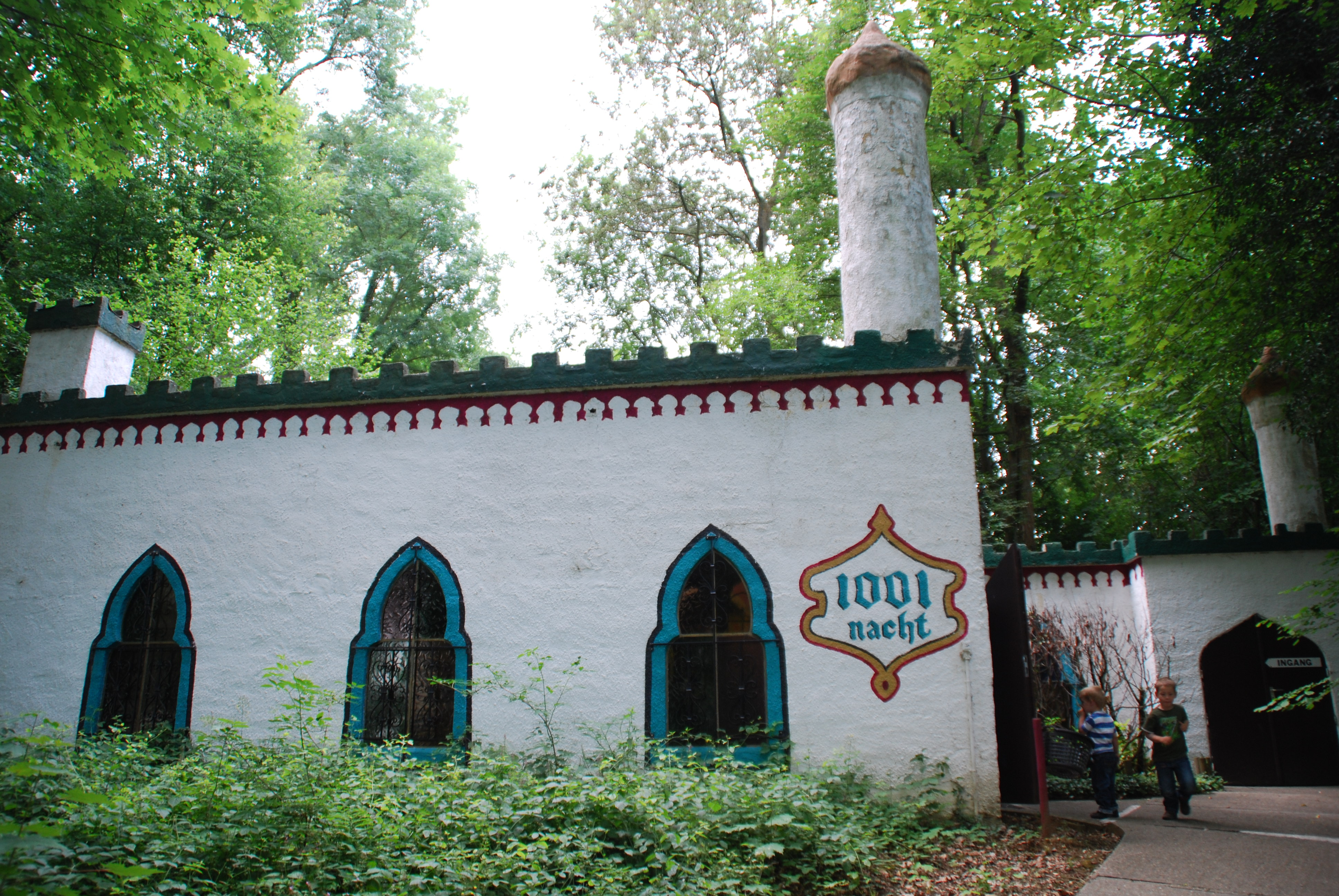 Sprookjesbos Valkenburg - Fairy tale 1000-en-1-nacht